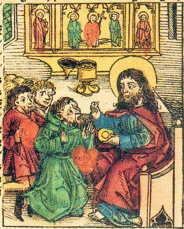 Prester John as depicted in the chronicles of Hartmann Schedel (1493).